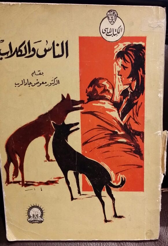 Front page of a book from my personal library